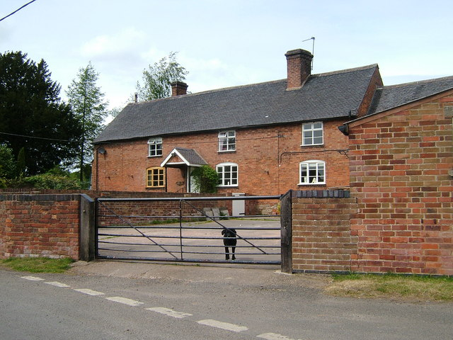 Woof! Greeted by a friendly pooch at Shaw Cross House.